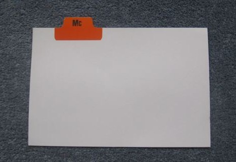 Cardboard file divider card of British origin showing the "Mc" symbol used for collation in filing systems that sort names prefixed Mac- and Mc- together (i.e. Scottish and Irish surnames all treated as McX)